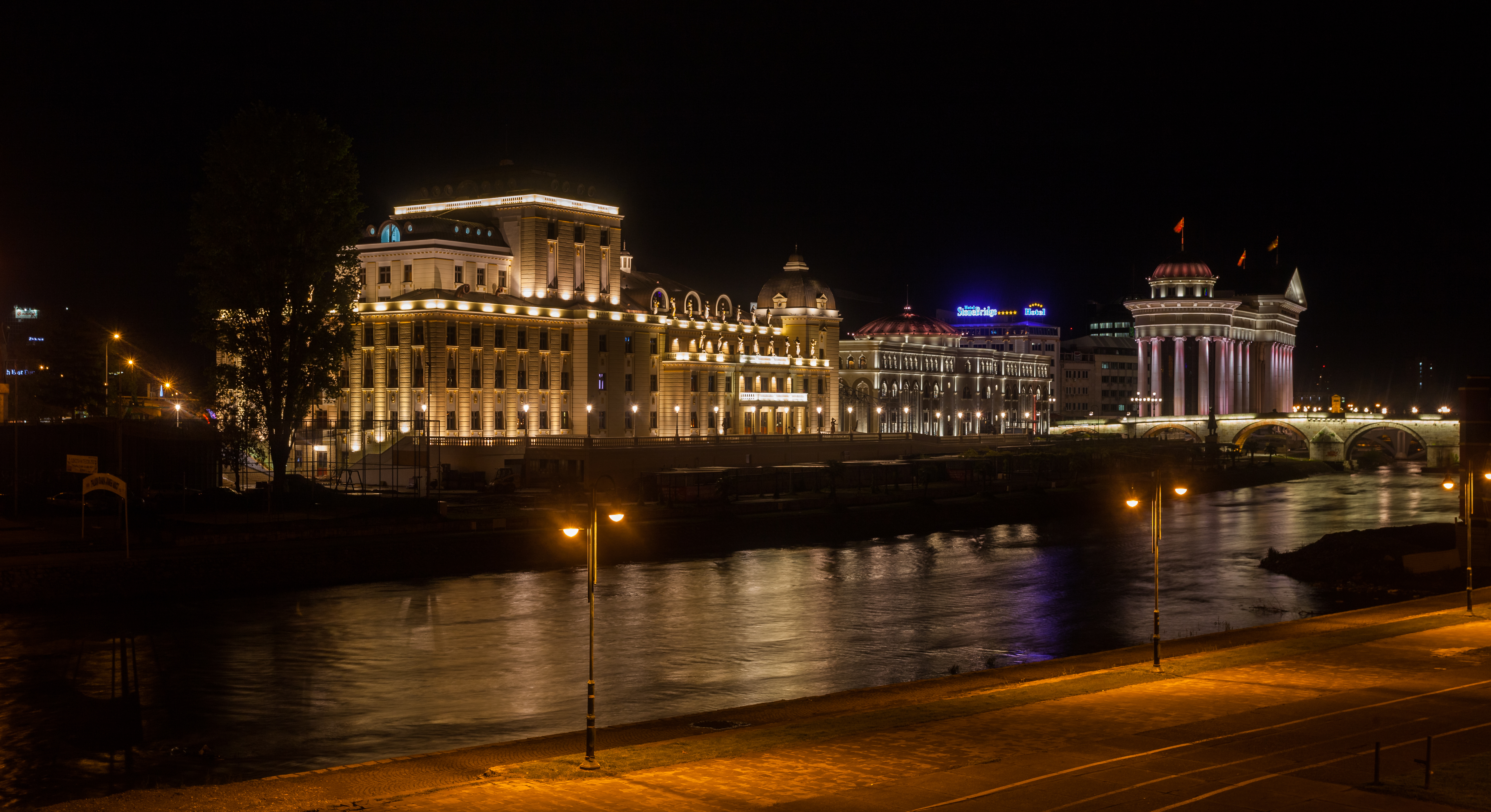 The Macedonian National Theatre and the Museum of Macedonian Struggle in Skopje, Republic of Macedonia